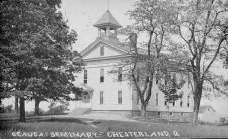 Geauga Seminary Chesterland Ohio where President Garfield attended